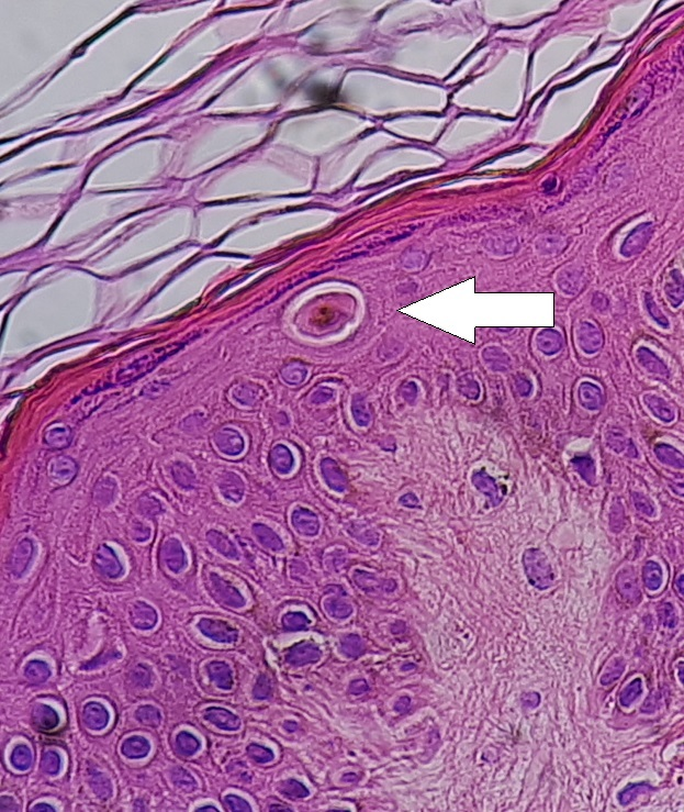 Pagetoid peripherally to a melanoma in situ. H&E stain.